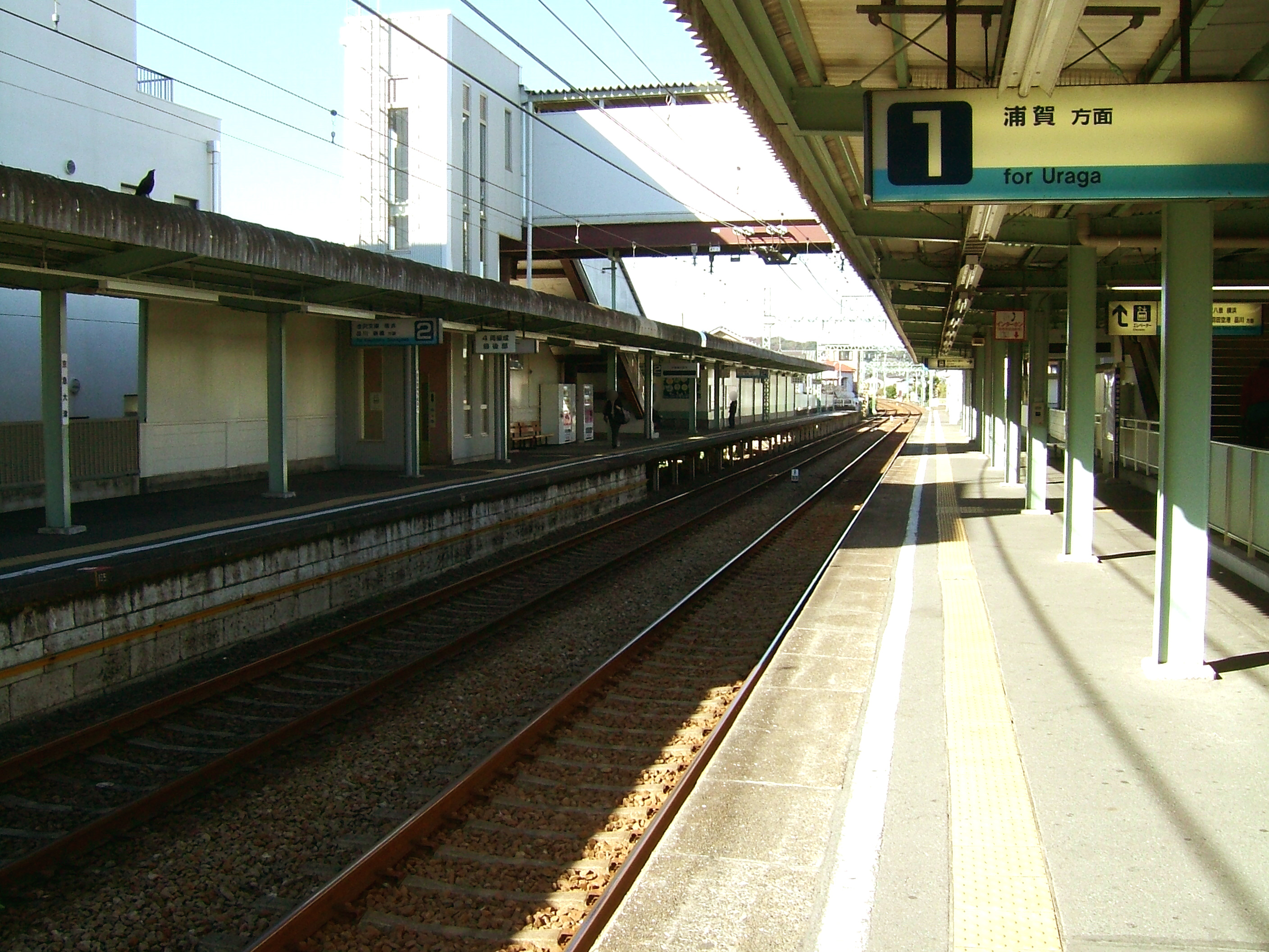 Keikyū Ōtsu Station platform (Keihin Electric Express Railway Main Line)